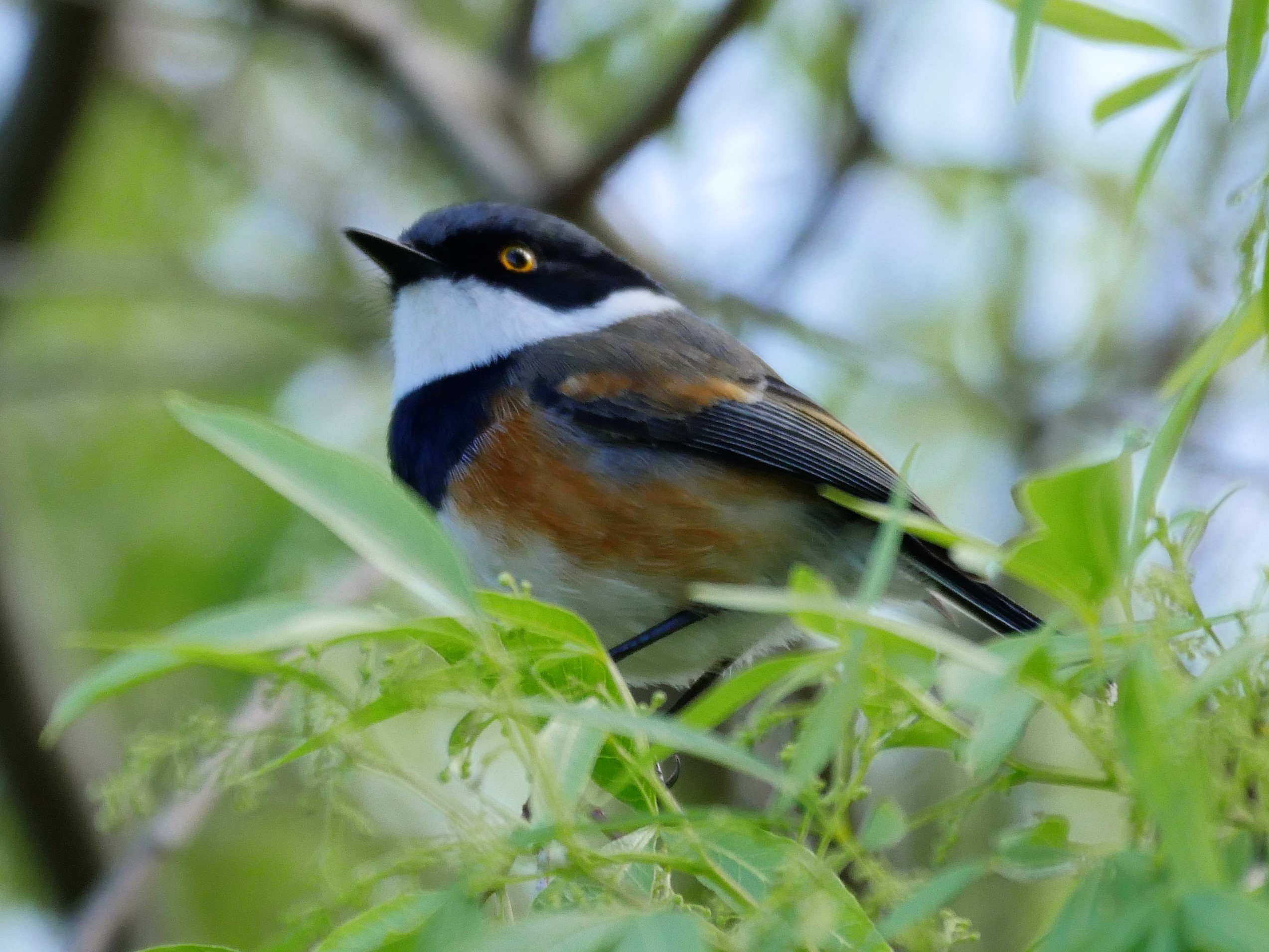 Cape Batis